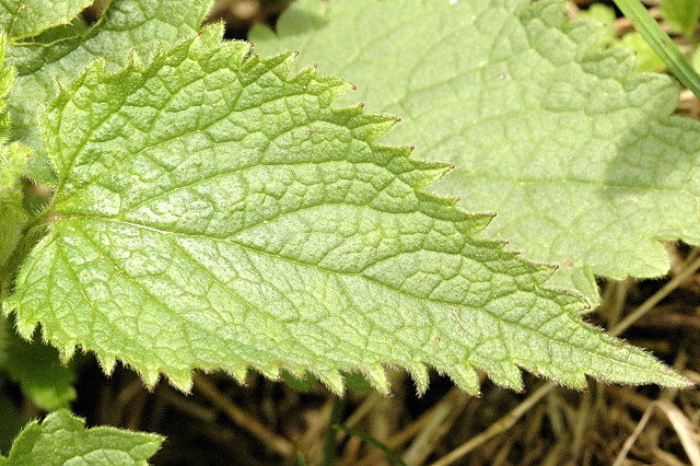 Lamium album from Commanster, Belgian High Ardennes .